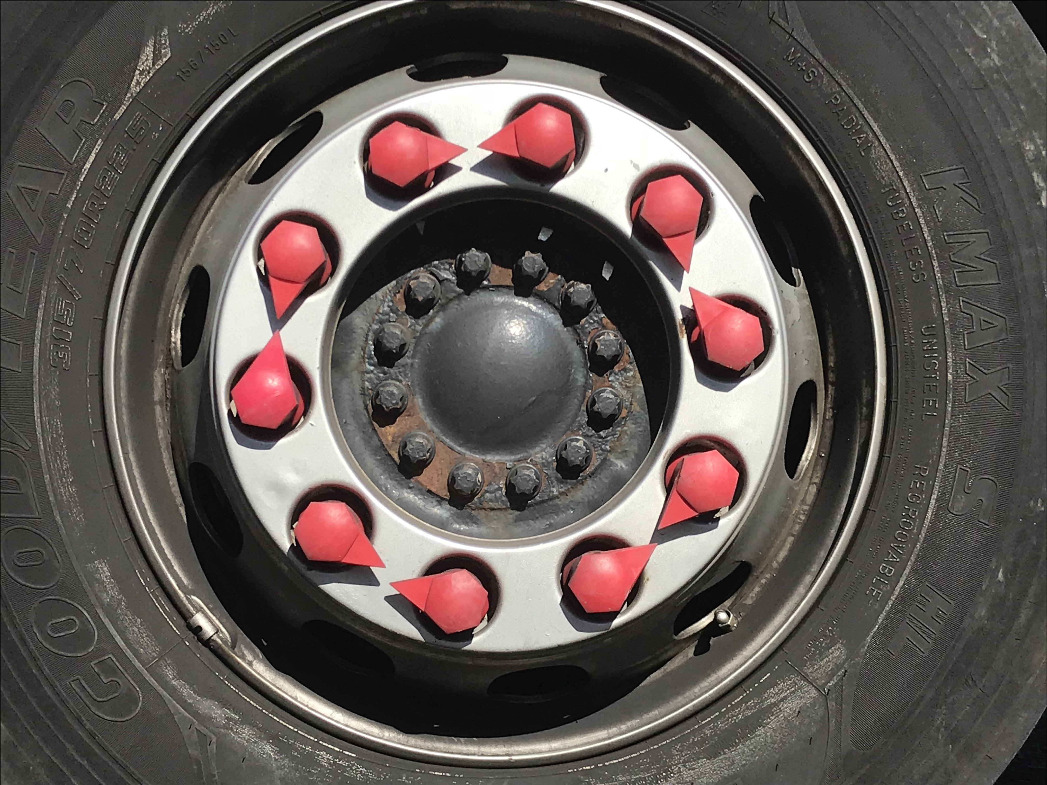 Loose wheel nut indicators on a lorry parked on an undeveloped dead end road beside Argyll College in Oban, Scotland. This is a red Scania rigid-body curtainsided lorry belonging to AM Transport and has been parked here for months, possibly laid up during lockdown.